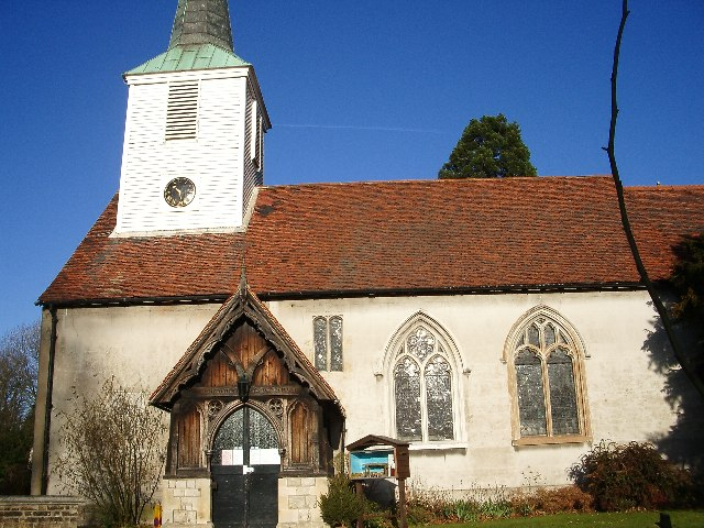 Nave and west tower of St Mary's parish church, Chigwell, Essex, seen from the south